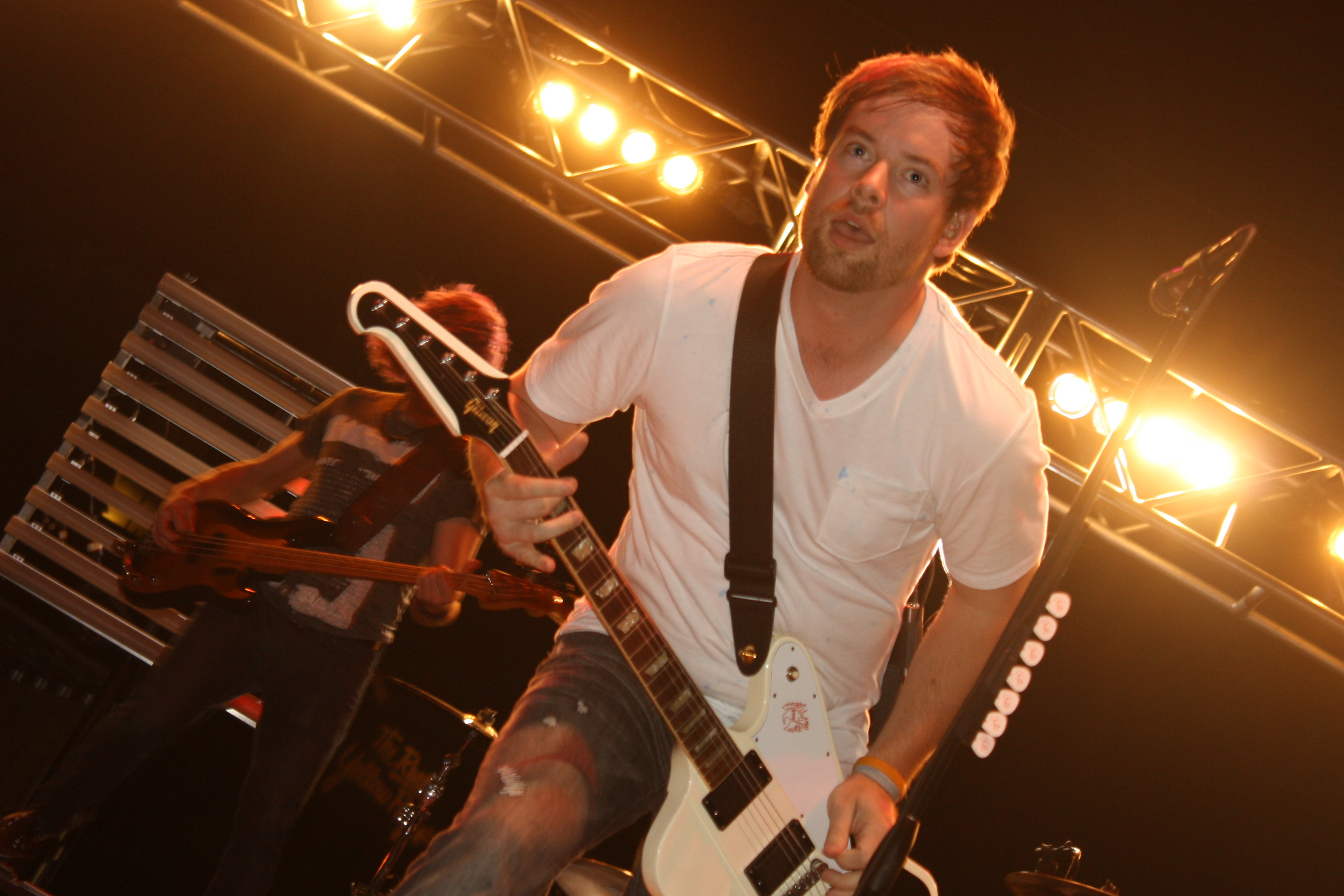 David Cook in Galveston on 7/5/09